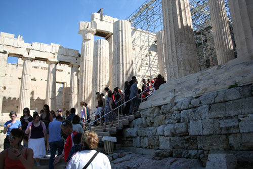 Ron Waller, personal photograph - Propylea, Acropolis, Athens, April 2006